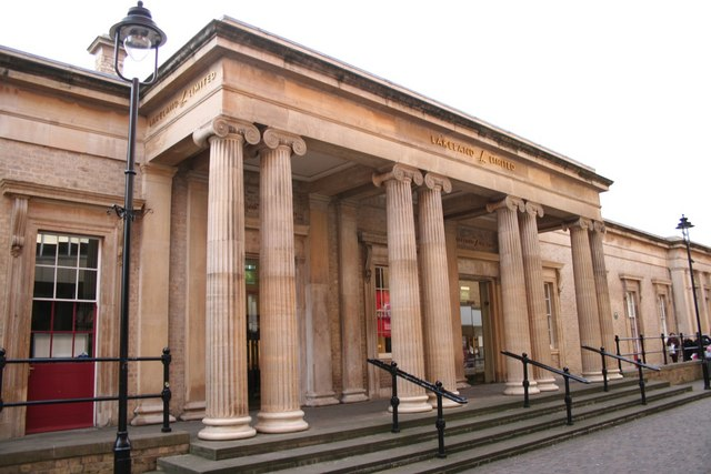 St.Mark's Station portico Oftenatrributed to the Licoln architect William Adams Nicholson, but almost certainly by the London architect John Davies.